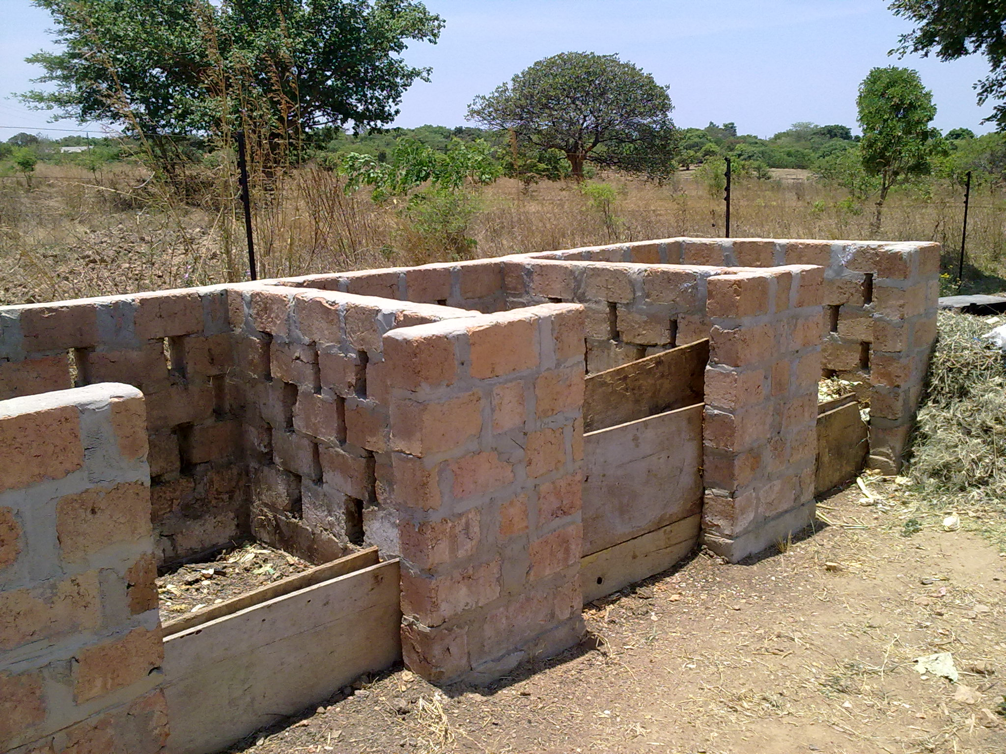 biowaste and other waste farm produce used to make compost